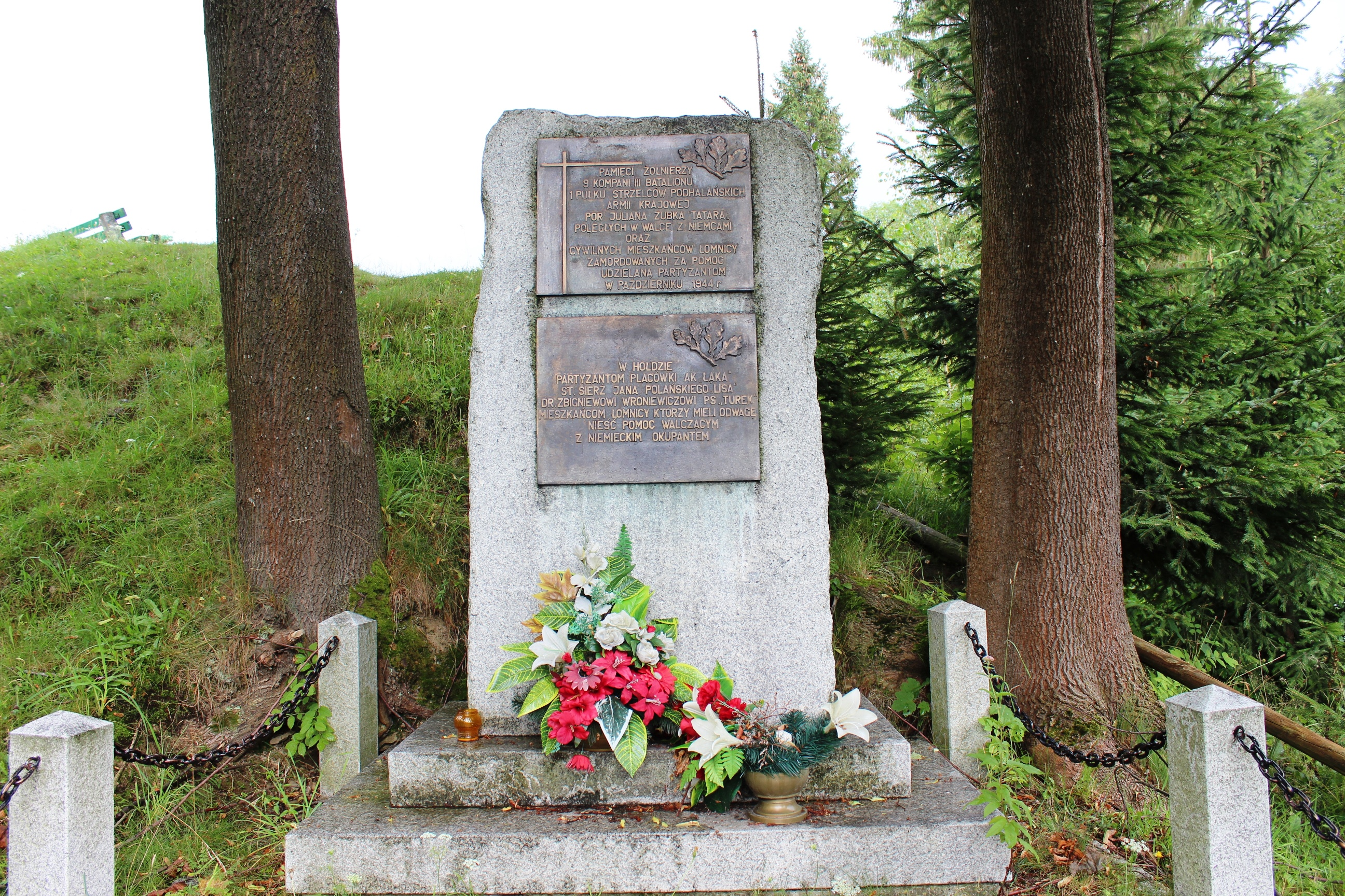 Łomnica-Zdrój monument